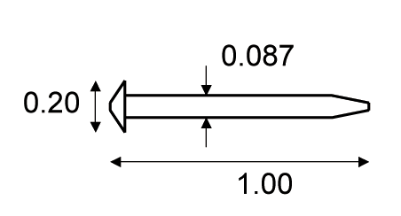 Diagram of Pinewood Derby car axle with dimensions.